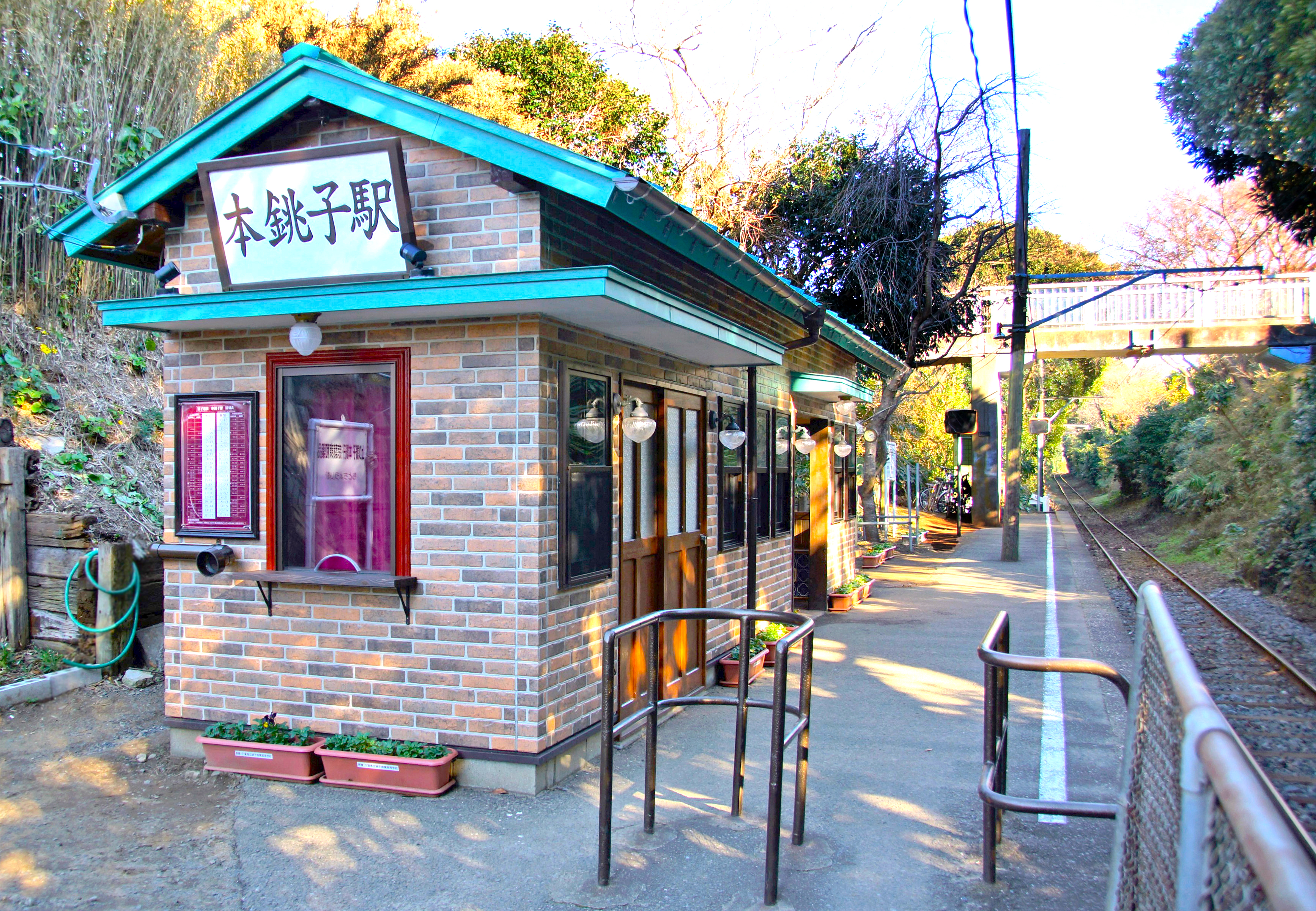 Moto-Choshi Station on the Choshi Electric Railway in Chiba Prefecture, Japan